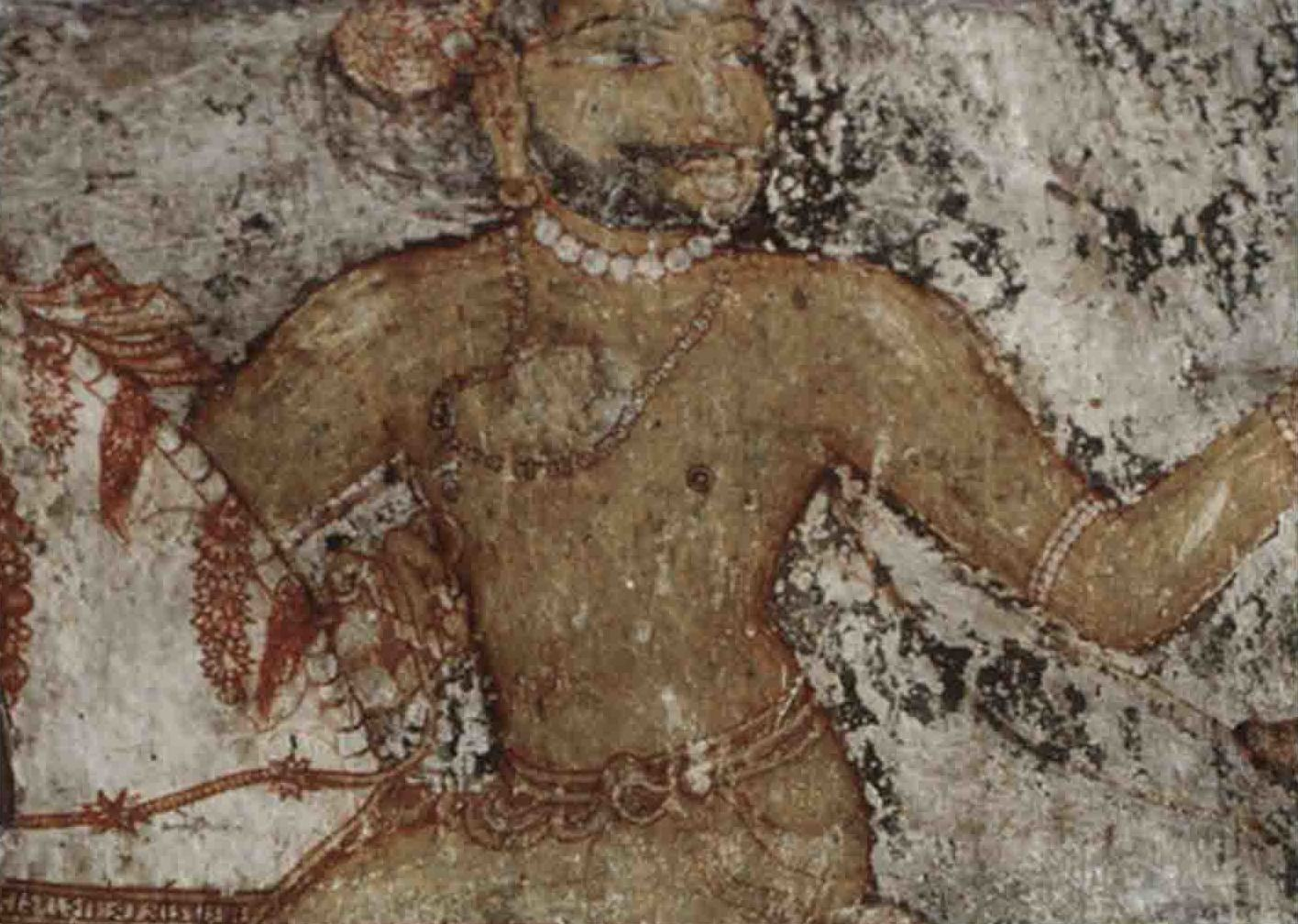 Depiction of "Cherman Perumal" Nayanar (Brihadisvara Temple, Thanjavur)